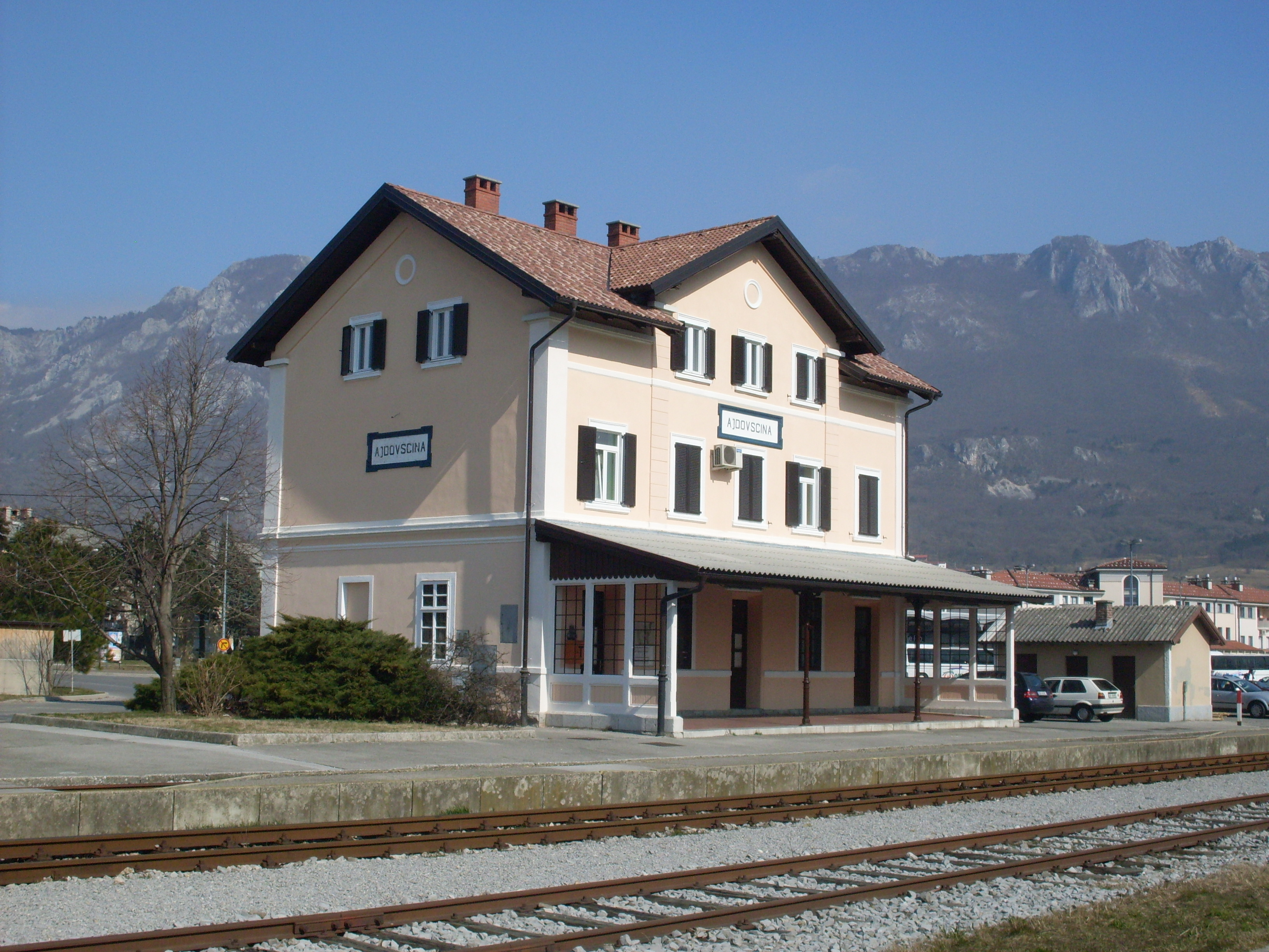 Train station in Ajdovščina, Slovenia